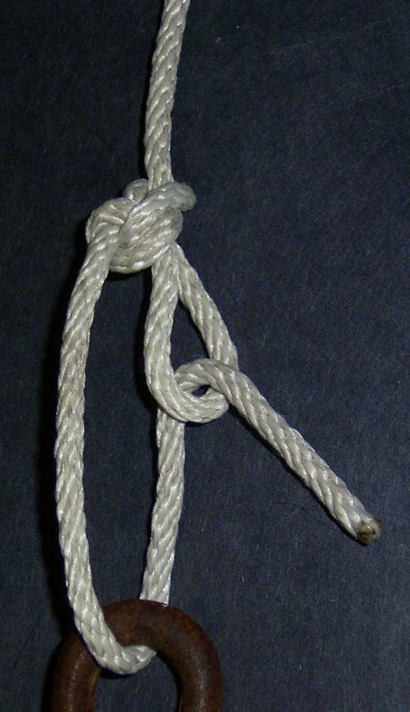 Truckers Hitch knot using the Alpine Butterfly for the loop.